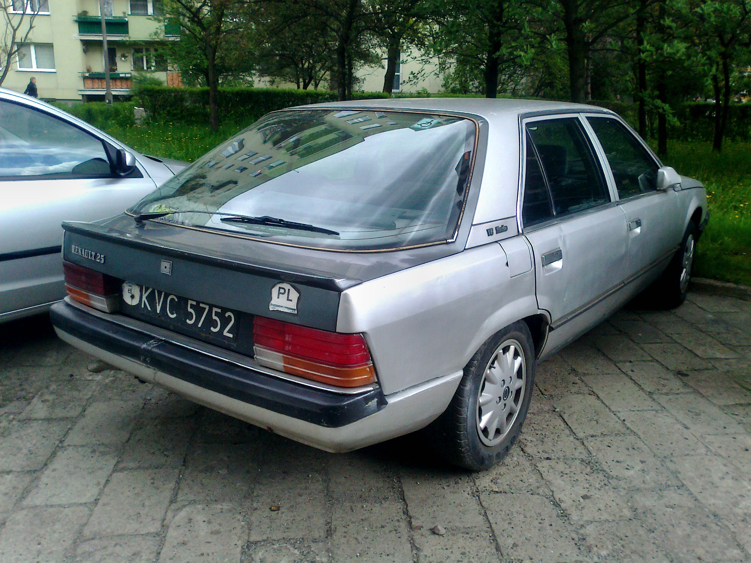 Renault 25 V6 Turbo seen in Kraków, Poland.